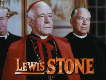 Lewis Stone in The Prisoner of Zenda (1952), directed by Richard Thorpe.